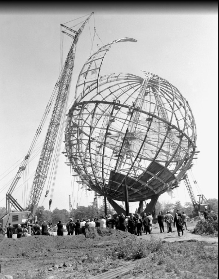 A crane eases the last segment of the Unisphere into place to complete the structure, which served as a symbol of the World's Fair in Flushing Meadow in 1960. Constructed of stainless steel, the job took 110 days.